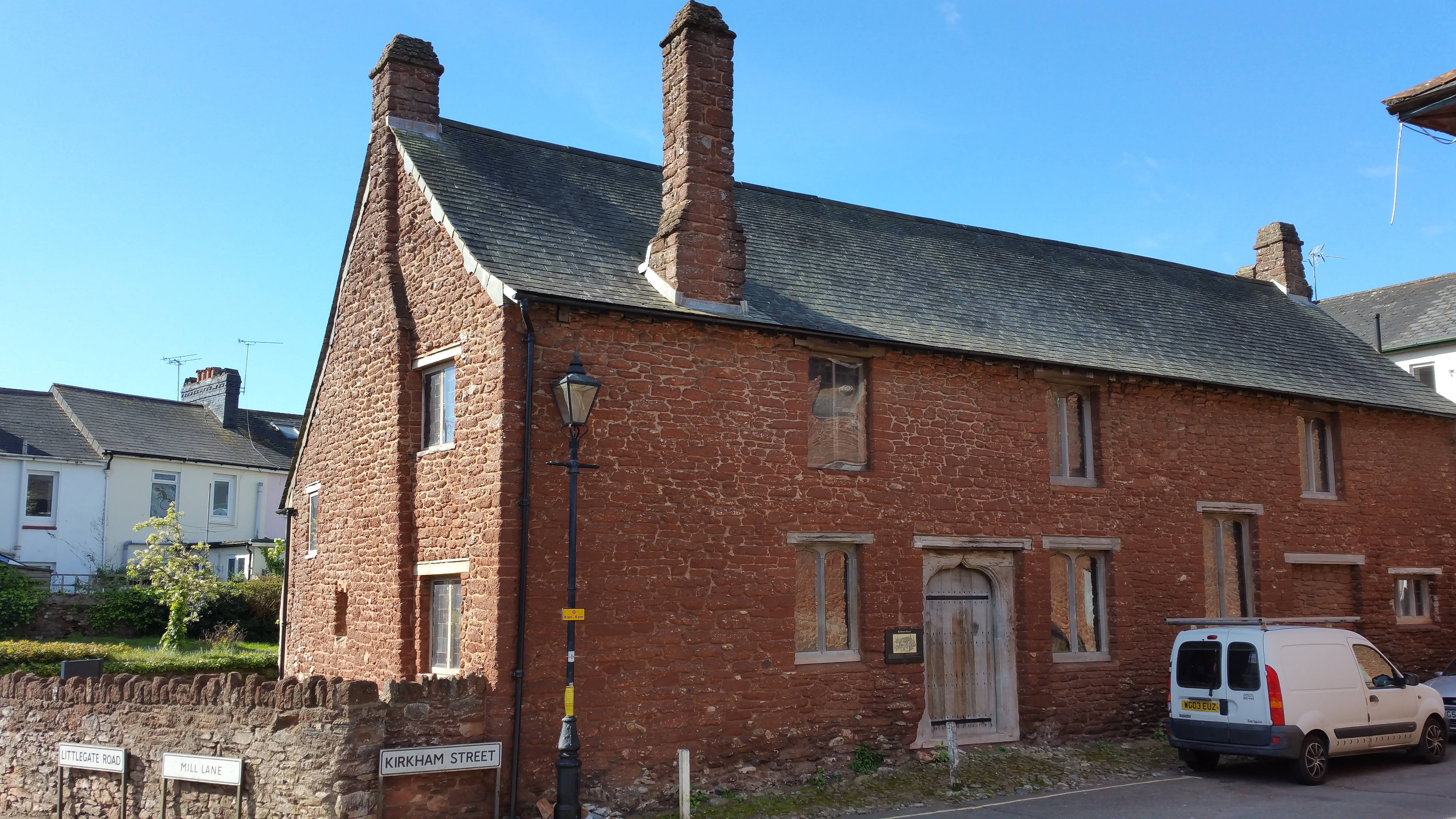 View of Kirkham House, Paignton, Devon.